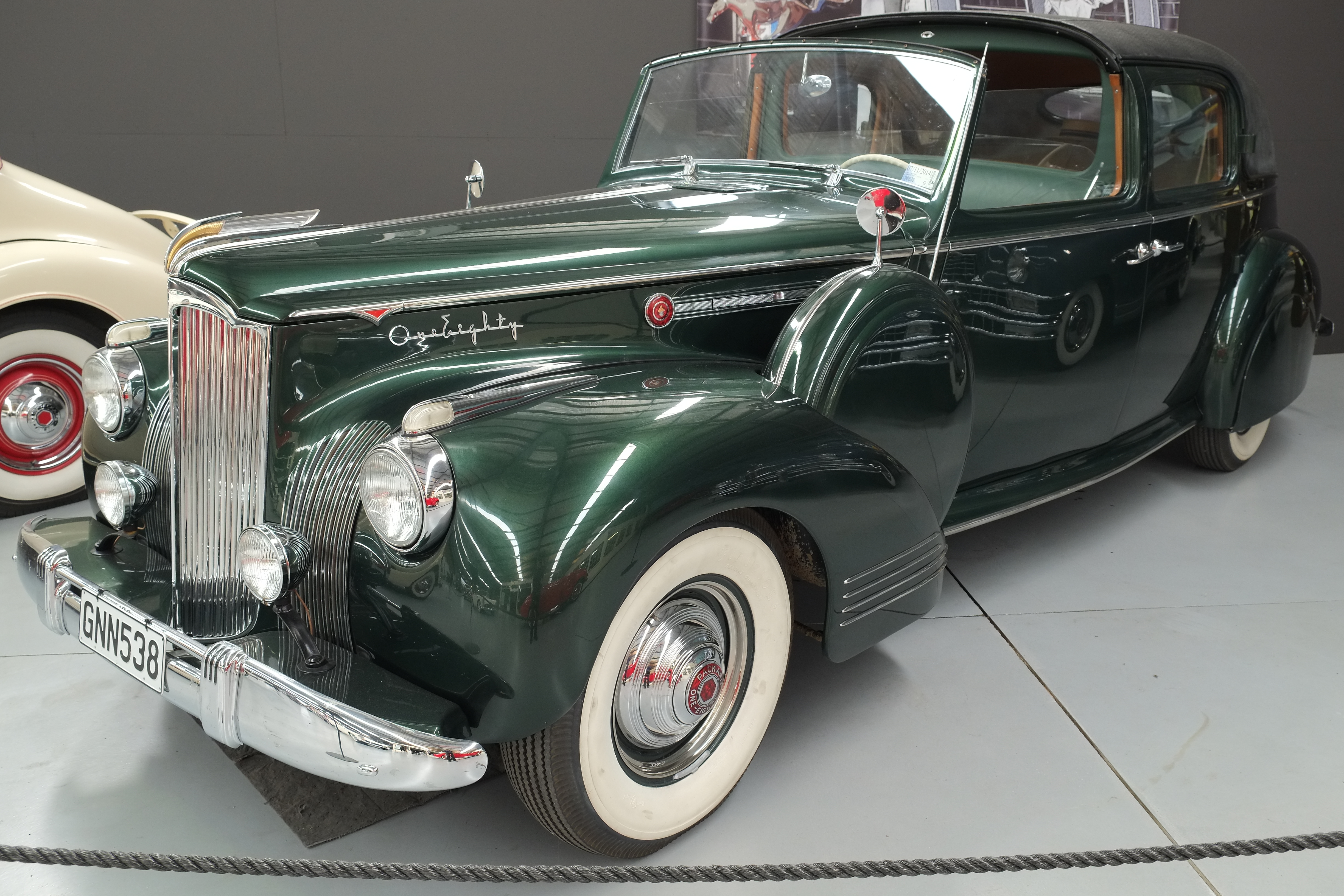 Rare 1941 Packard Rollson 180 Limousine (Warbirds & Wheels museum). This Packard with a Rollson-designed and built body is the only 1941 example of this car known to exist. The car's serial number is 2001 and it was the only one made that year.